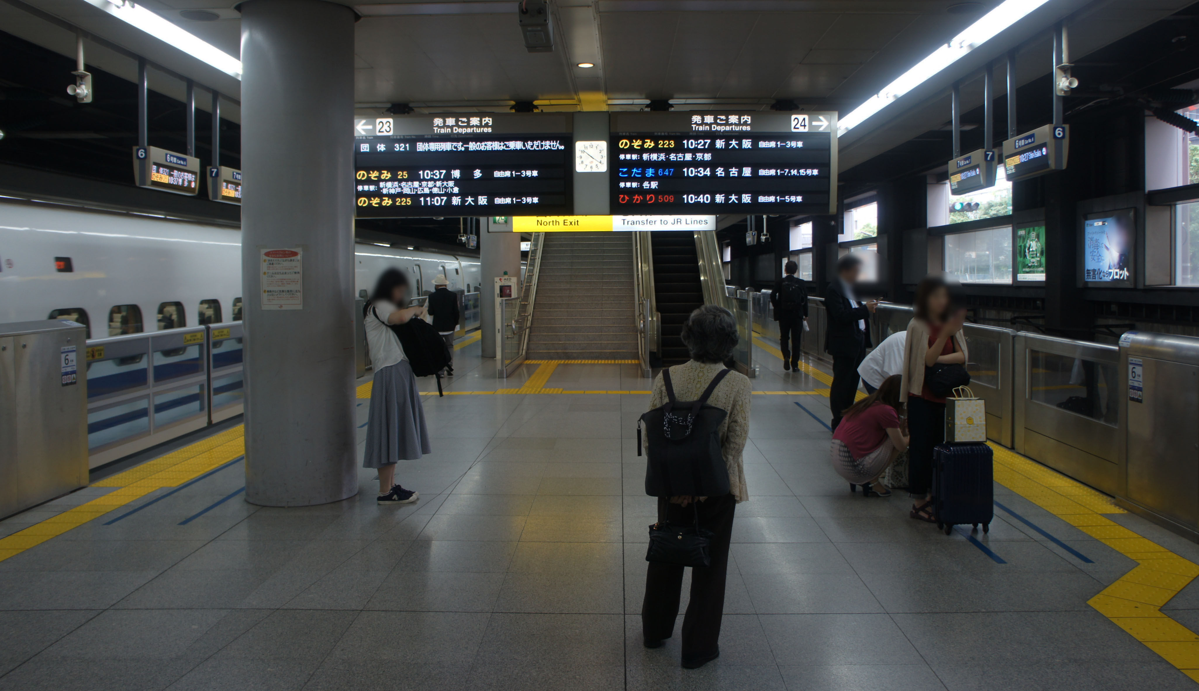 Platform 23・24 of JR Shinagawa Station Sony NEX-3 + E 18-55mm F3.5-5.6 OSS